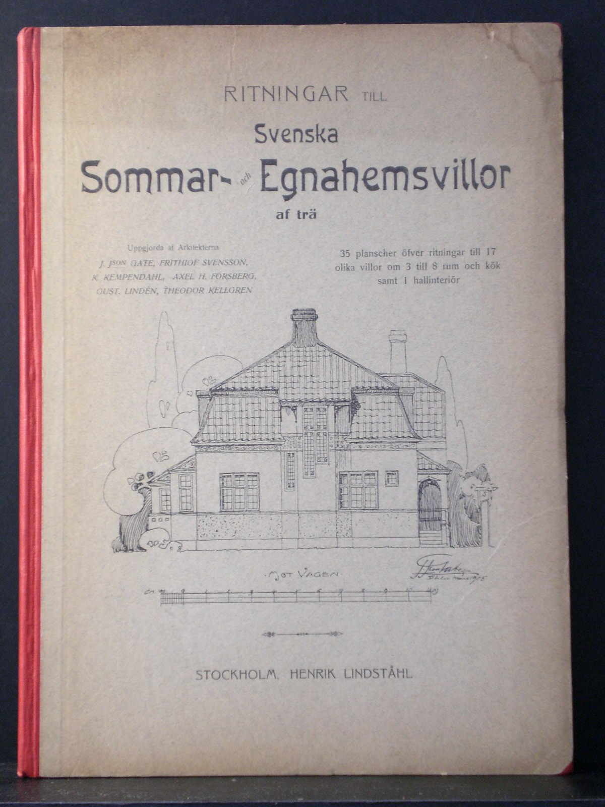 Jacob Json Gate, book of drawings